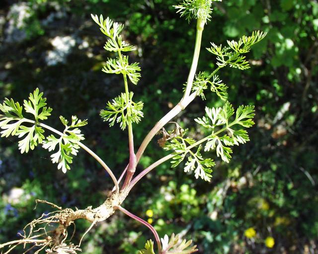 (en) (Gb)Wild Bishop (Bifora radians), a photography originating of the internet site The accord of the autor, H. Brisse, is here. (fr) Bifora rayonnant (Bifora radians), une photographie issue du site internet L'accord de l'auteur, H. Brisse, se situe ici. (It)Coriandolo puzzolente (Bifora radians) (De)Strahlender Hohlsame (Bifora radians) (Nl)Holzaad (Bifora radians)